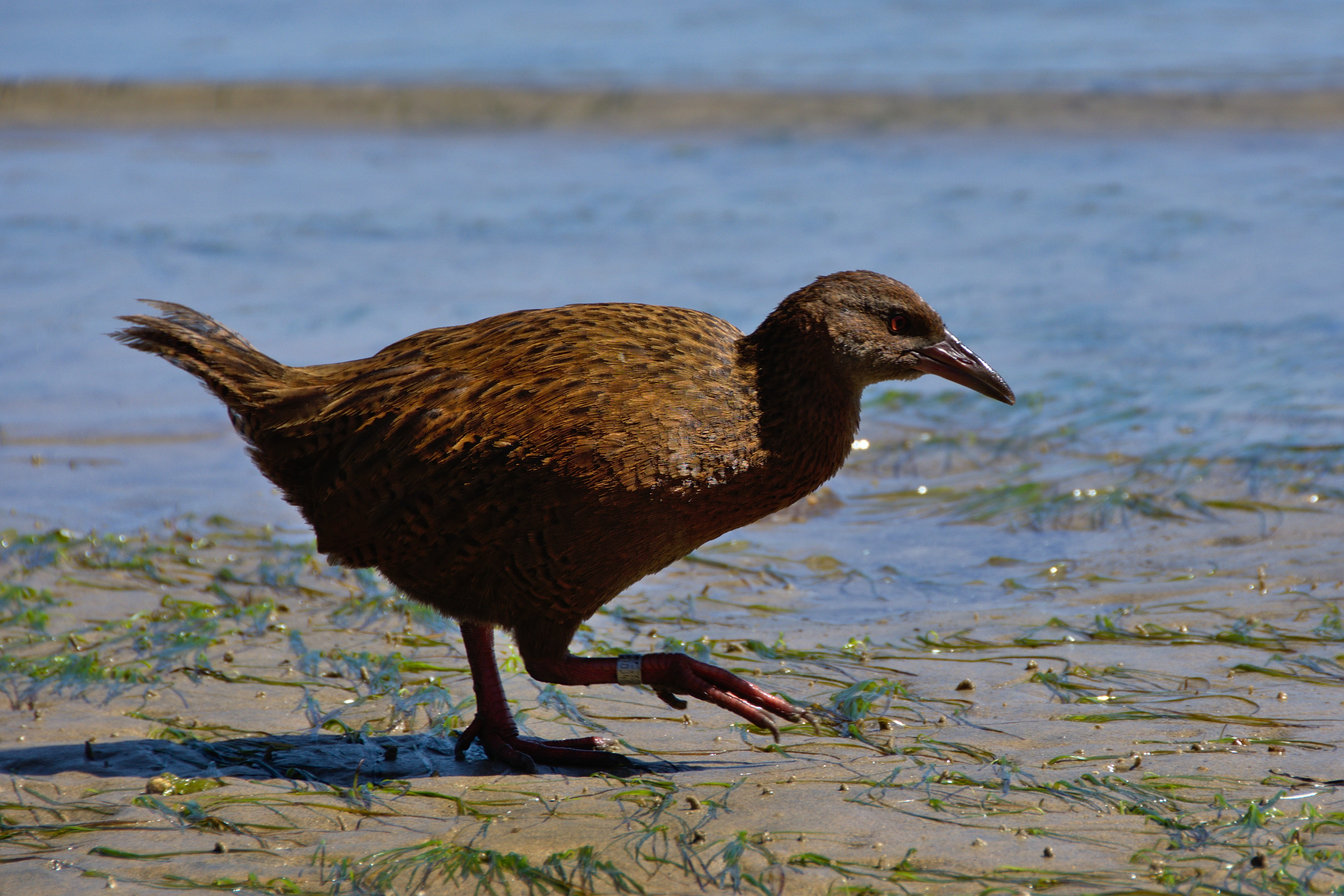 A Weka on a beach at Stewart Island, New Zealand. This subspecies is also called the Stewart Island Weka.